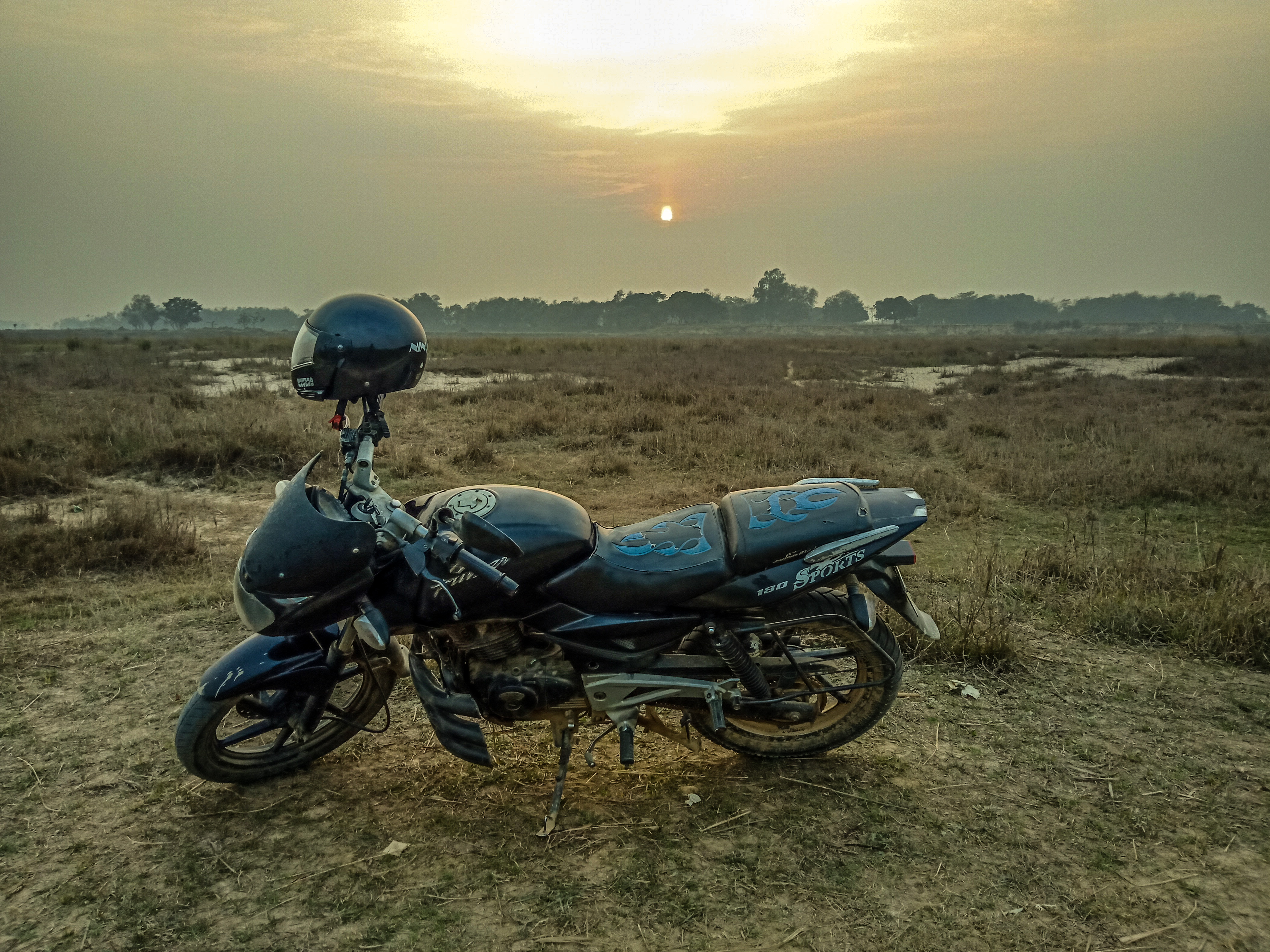 View of Tiar river bank at evening form Benauli village of Bara district and Pachrauta Nagarpalika, with a bike having a beautiful view.